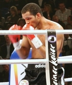 Yoan Pablo Hernández in Sparkassen-Arena in 2008.